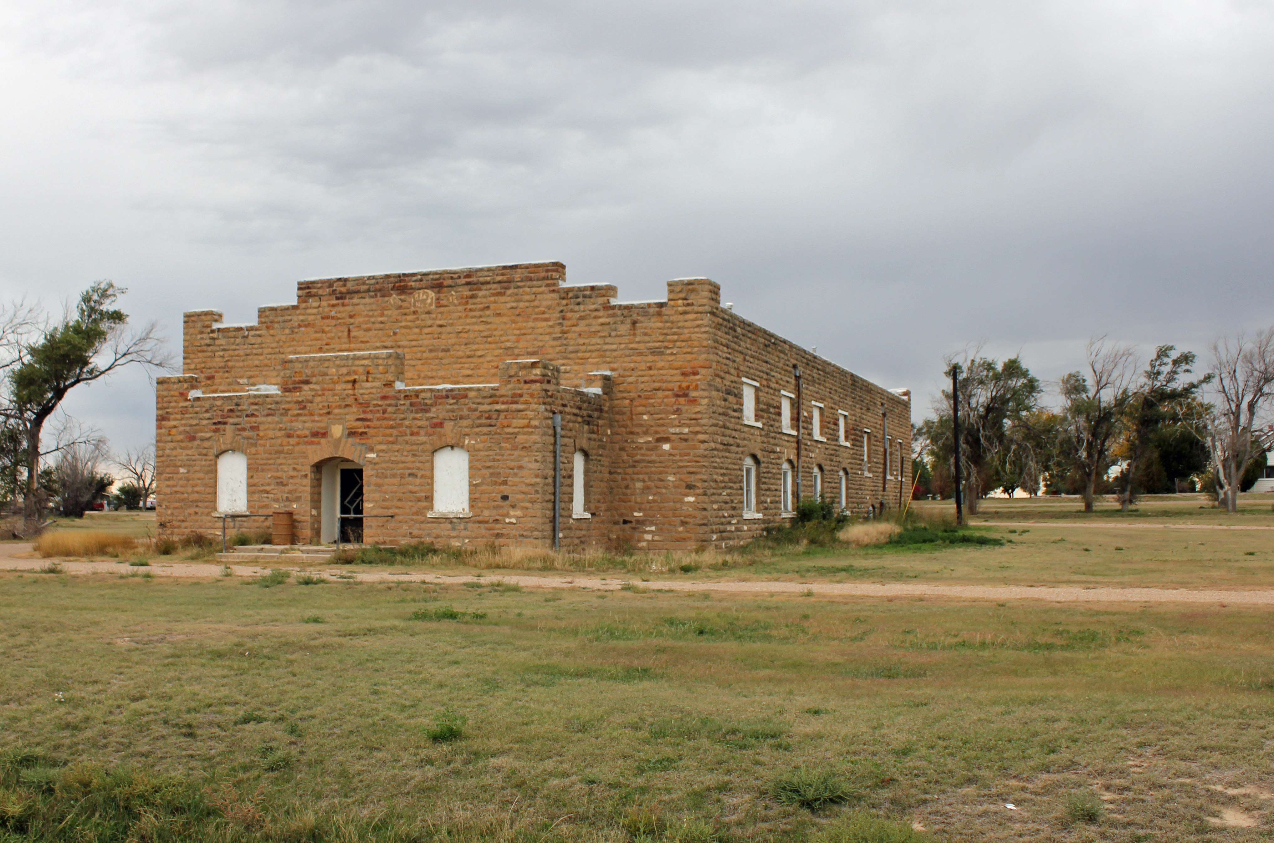 The Two Buttes Gymnasium, located near the intersection of 5th and C streets in Two Buttes, Colorado. The property is listed on the National Register of Historic Places.